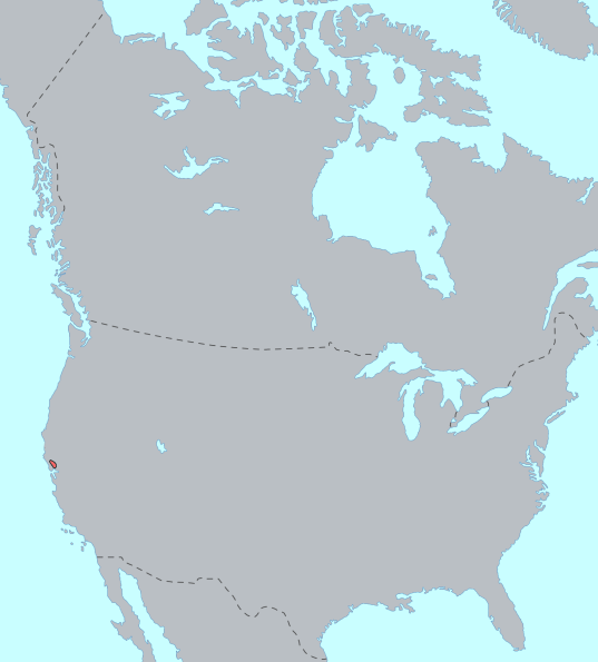 This map depicts the area in which Wappo was spoken. Map modified from Yuki-Wappo language map, which was redrawn and modified from two maps by cartographer Roberta Bloom appearing in Mithun (1999:xviii-xxi). Additional references include Mithun (1999:606-616), Goddard (1996) (contains a very nice color map), Sturtevant (1978-present), Campbell (1997:353-376).